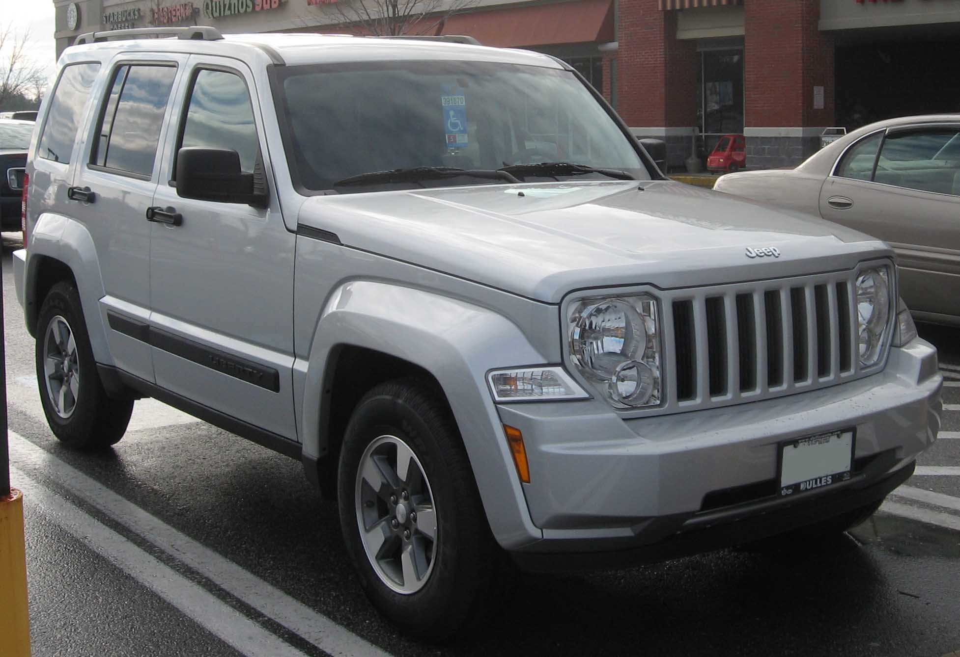 2008 Jeep Liberty photographed in Accokeek, Maryland, USA.